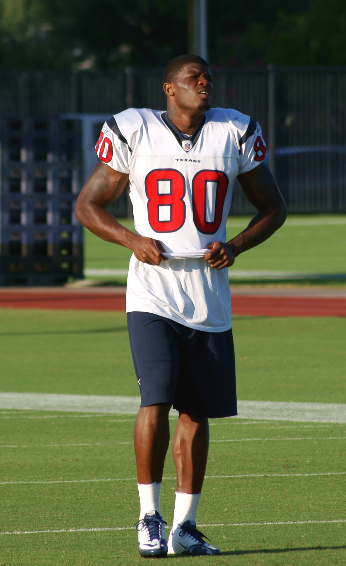 Andre Johnson of the Houston Texans